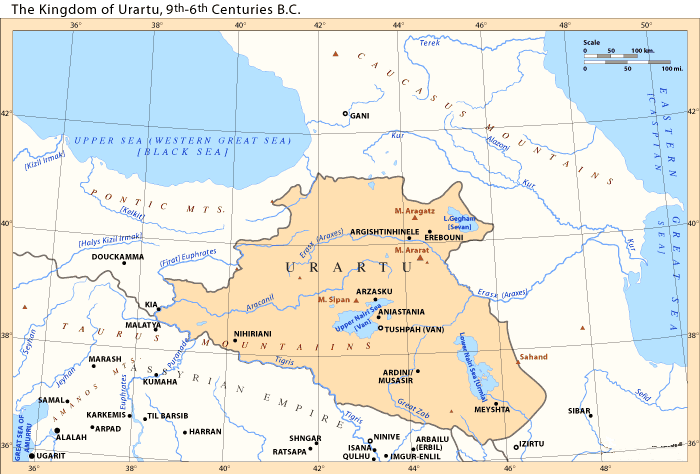 Urartu